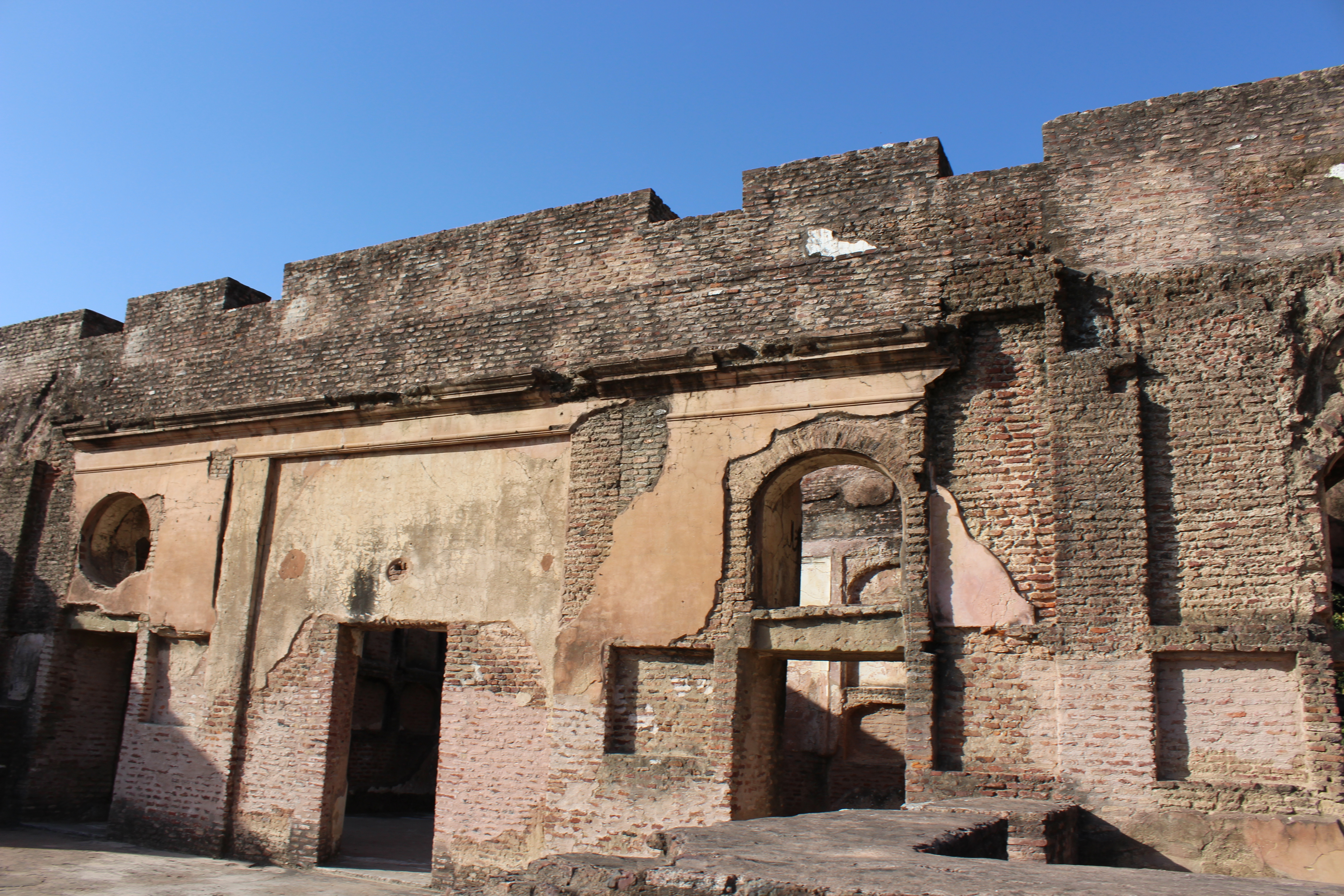 muklishgarh1